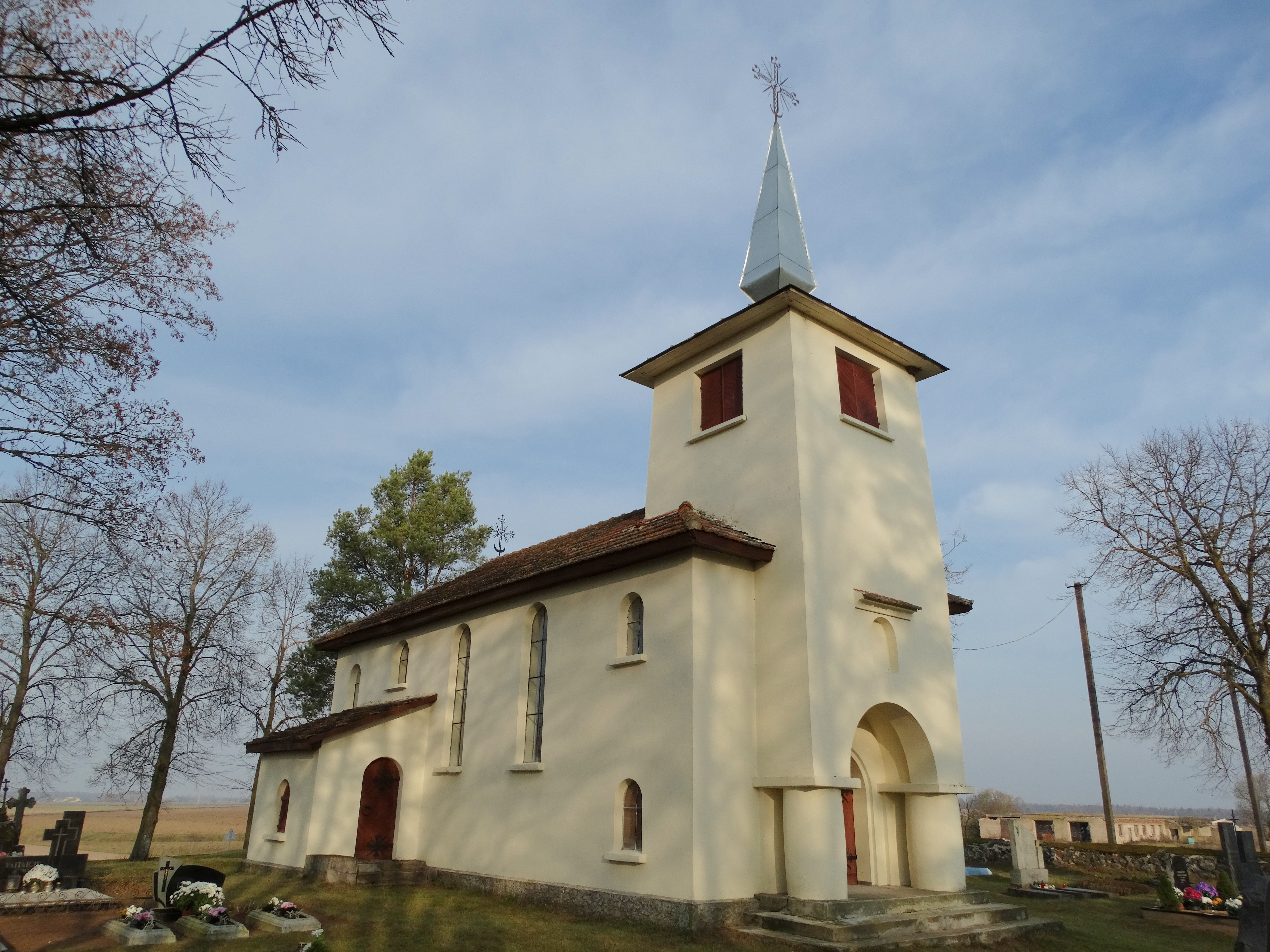 Chapel in Mieleišiai, Biržai district, Lithuania